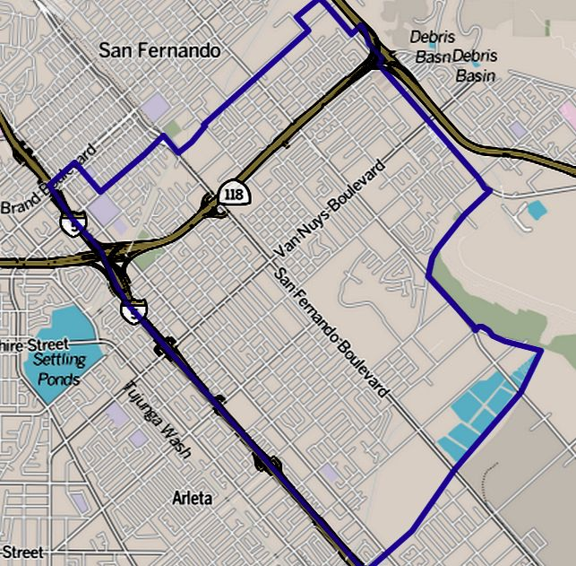 Map of Pacoima, as delineated by the Los Angeles Times Other information Boundary map as drawn by the Los Angeles Times on a CC-by-SA background. Note at bottom right of map on the L.A. Times website noted above says "CC-by-SA" (which gives permission to use the map). There is a link there to which explains the meaning thereof. The base map is credited to The Times spells all this out at